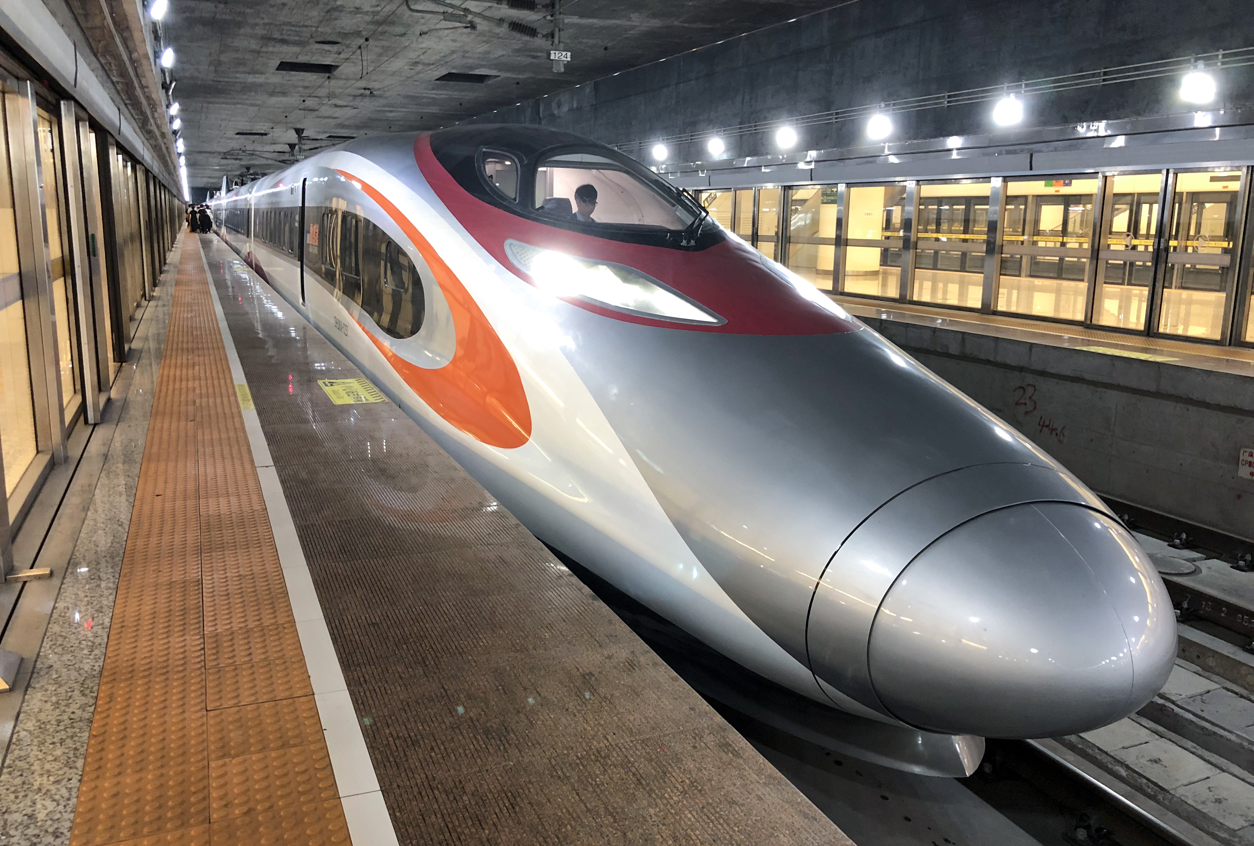 G5827 to Hong Kong West Kowloon. Finally captured 0251, the first MTR380A. Later I found 0258 on the opposite platform.